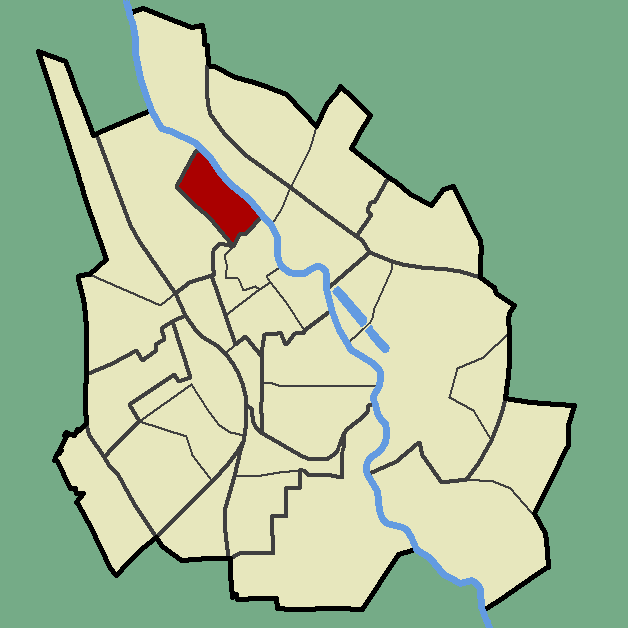 Locator map of Supilinn, Tartu, Estonia.